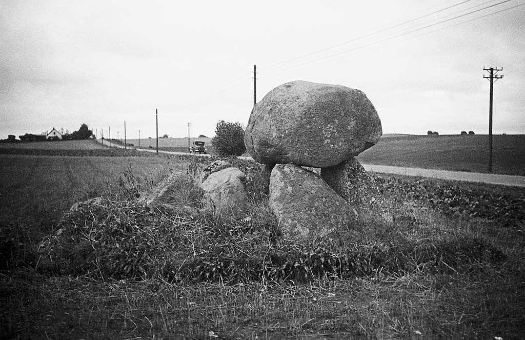 Stone Age dolmen by a road in Bregninge at the island of Lolland. Stenåldersdös vid en väg i Bregninge på ön Lolland. Location: Lolland, Region Sjælland, Denmark, Danmark Photograph by: Berit Wallenberg Date: 04.08.1934 Format: Film Persistent URL: Read more about the photo database (in english)